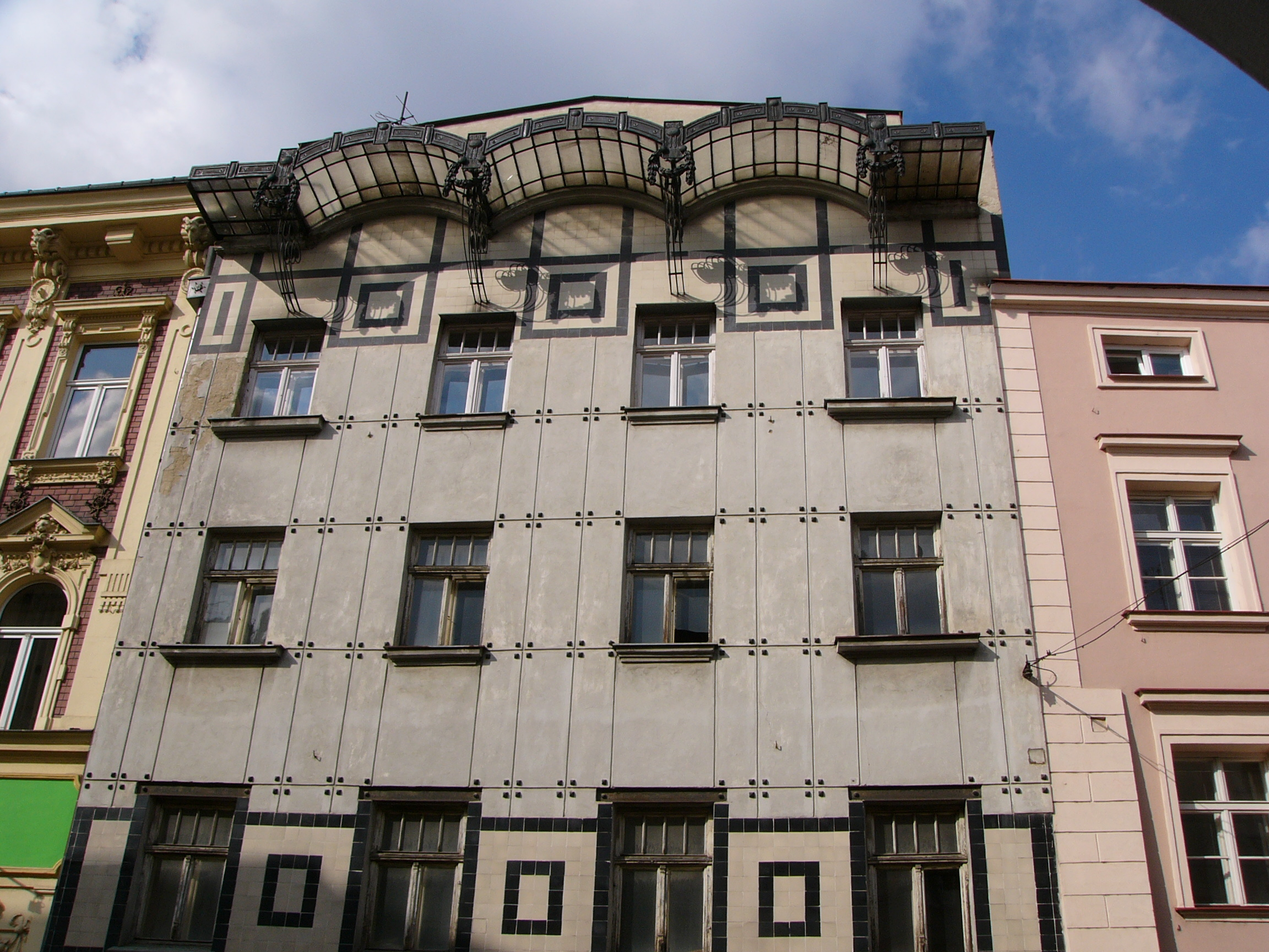 Art Nouveau house in Riegrova street in Olomouc (Czech Republic).